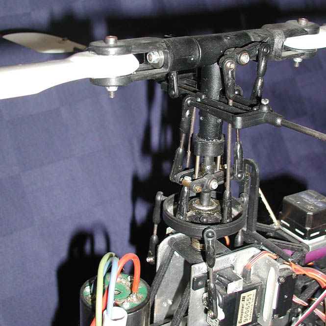 Swashplate of a radio-controlled helicopter.